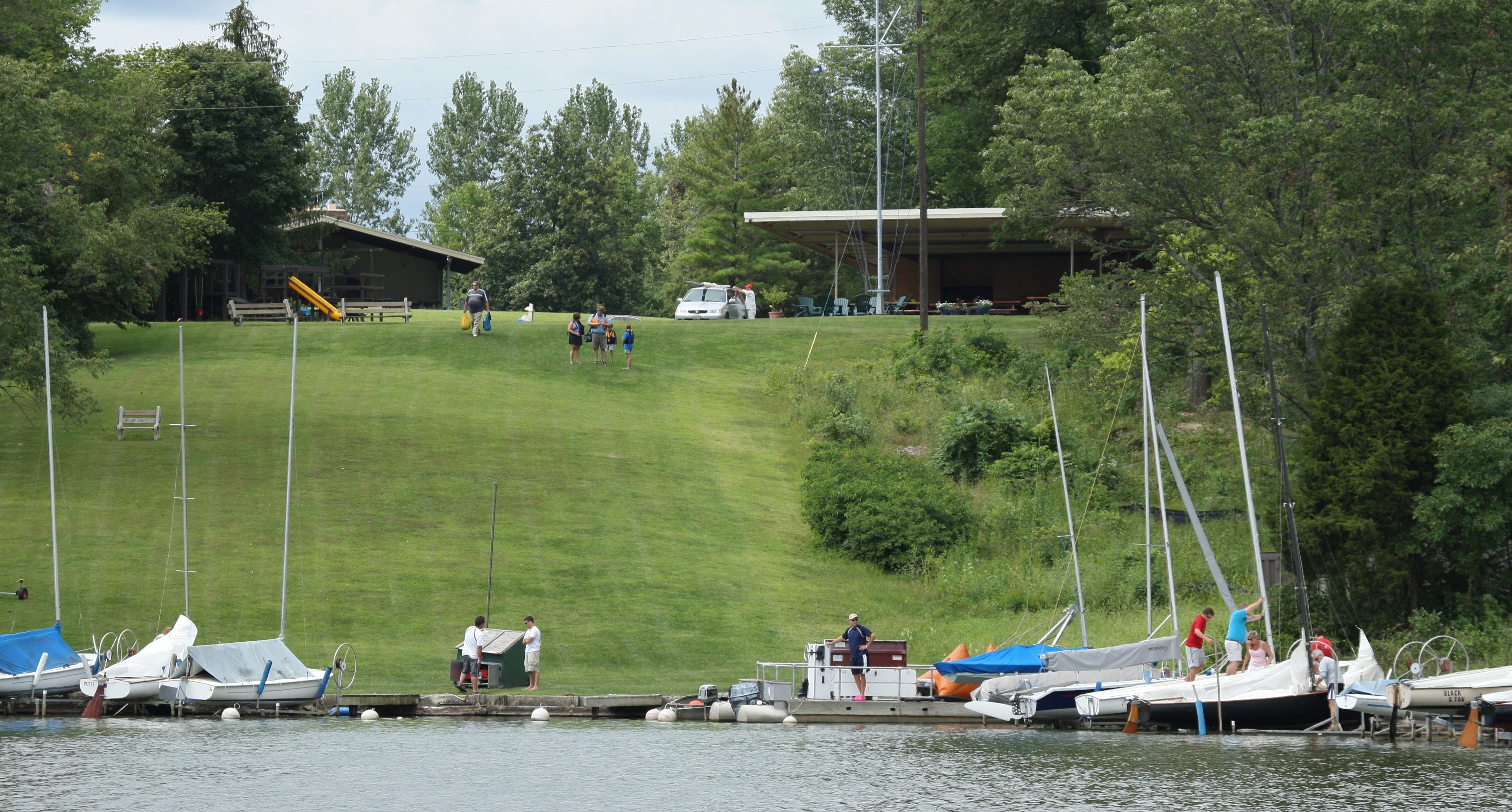 Image of the Cowan Lake Sailing Association's Clubhouse, Shelter house, and Docks. Photo taken by R. Steven Tsuchiya on August 30, 2009. Other information no